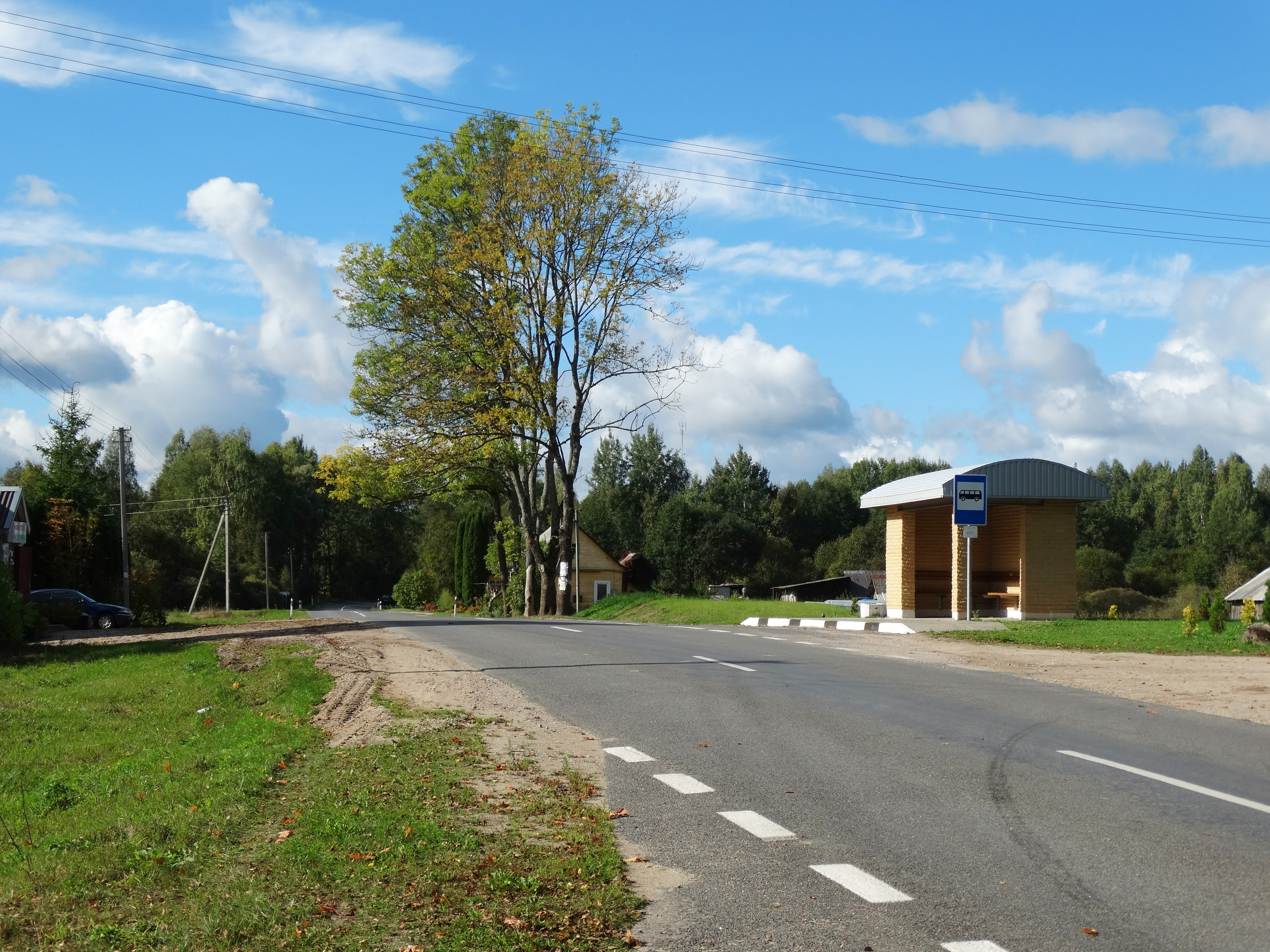 Bus stop in Stirniai, Molėtai district, Lithuania